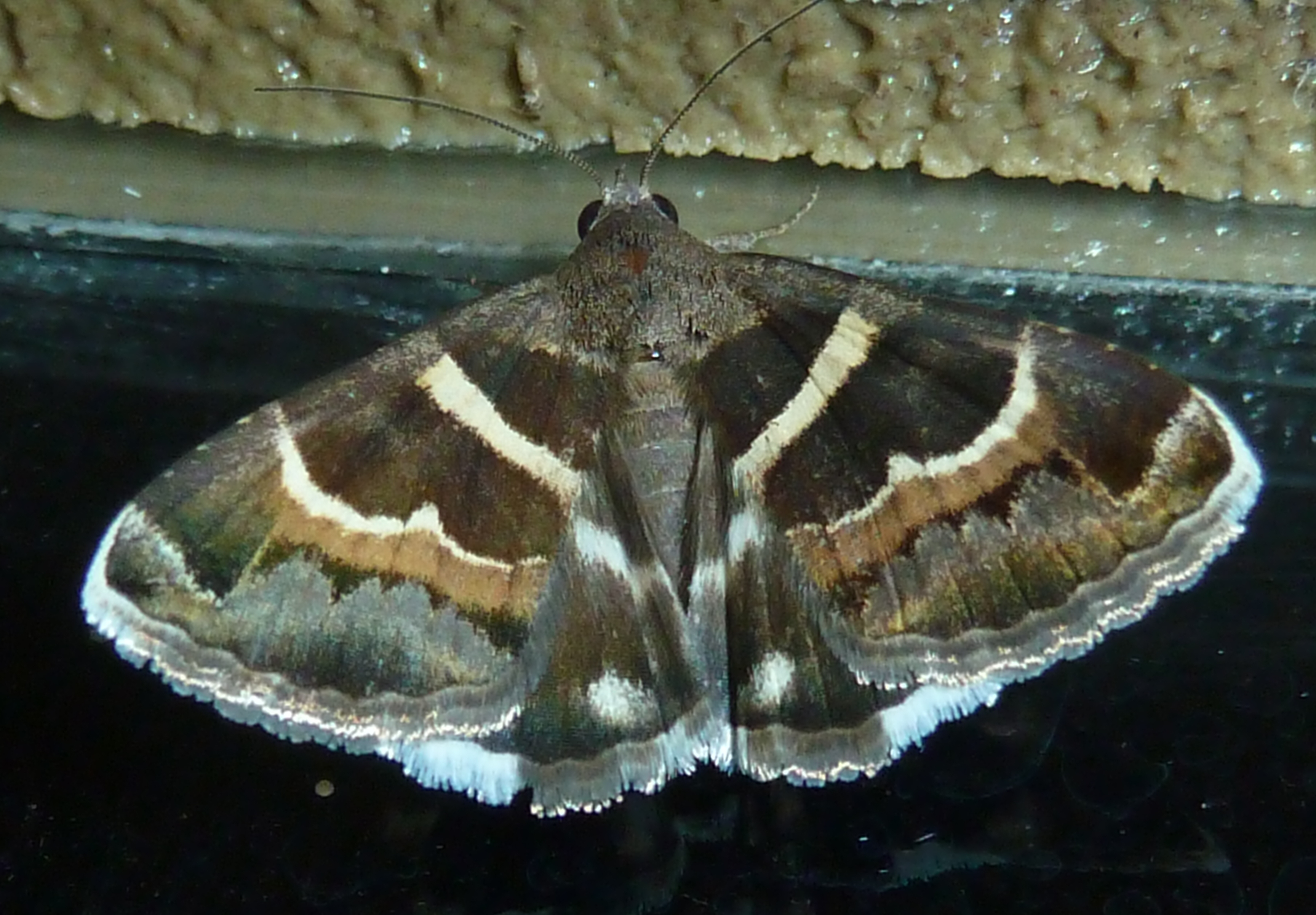 A Geometrician moth attracted to artificial light at Seringveld near Pretoria